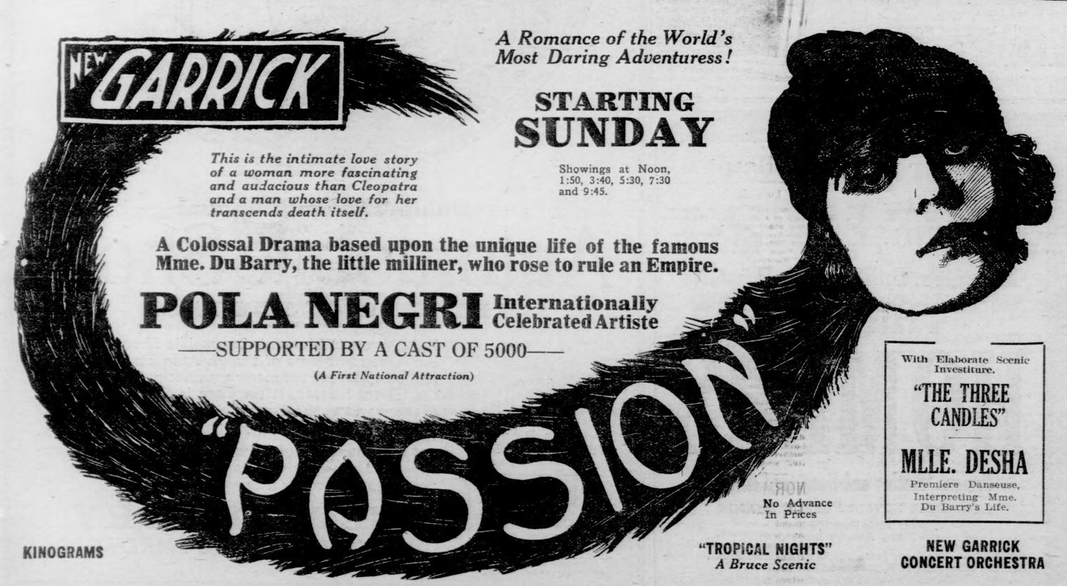 Newspaper advertisement for Passion, the U.S. title for the German film Madame DuBarry (1919) with drawing of Pola Negri, on page 6 of the February 19, 1921 Duluth Herald.